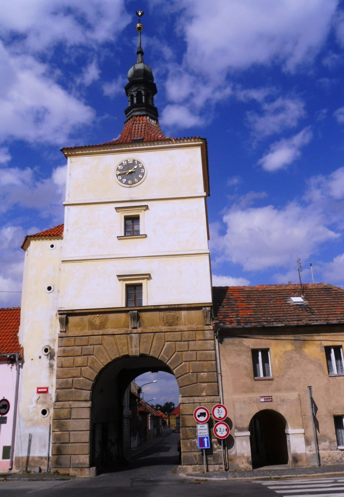 Velvary, Prague tower from S